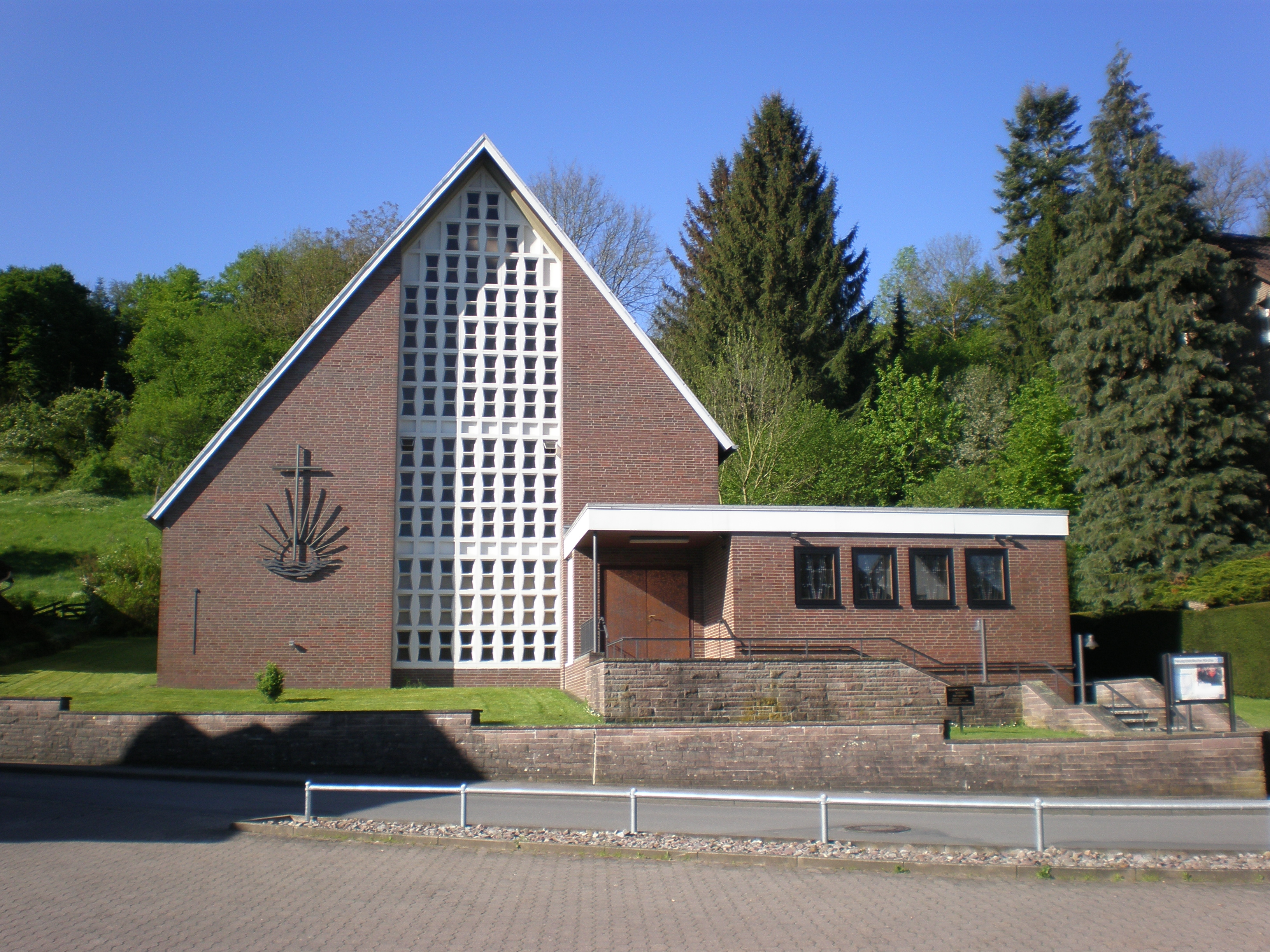 New apostolic church in Eschershausen (Lower Saxony, Germany). Address Mühlentrift 6.